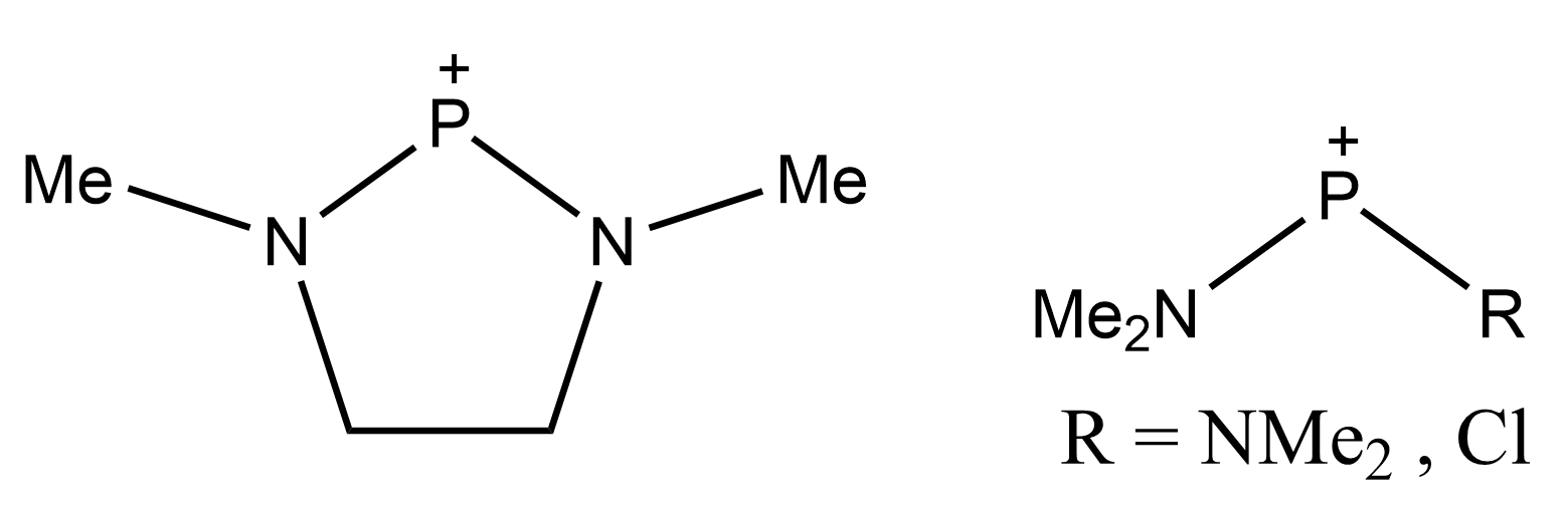 The first cyclic and acyclic phosphenium ions prepared. Adapted from refs 1,2,3